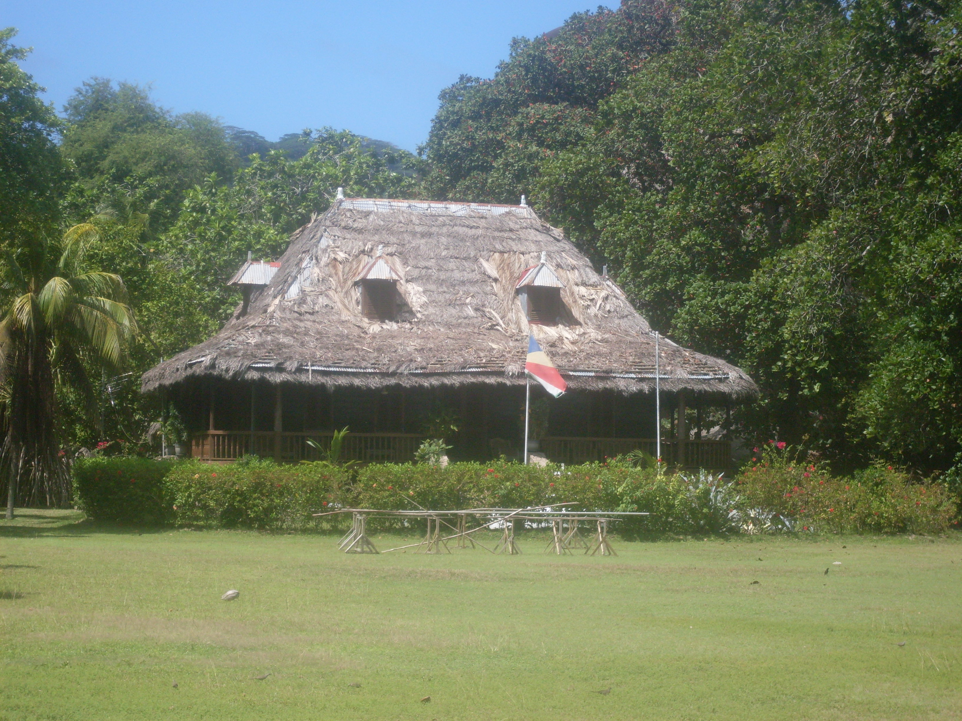 Plantation House "Grann Kaz" at L'Union Estate, La Digue, Seychelles